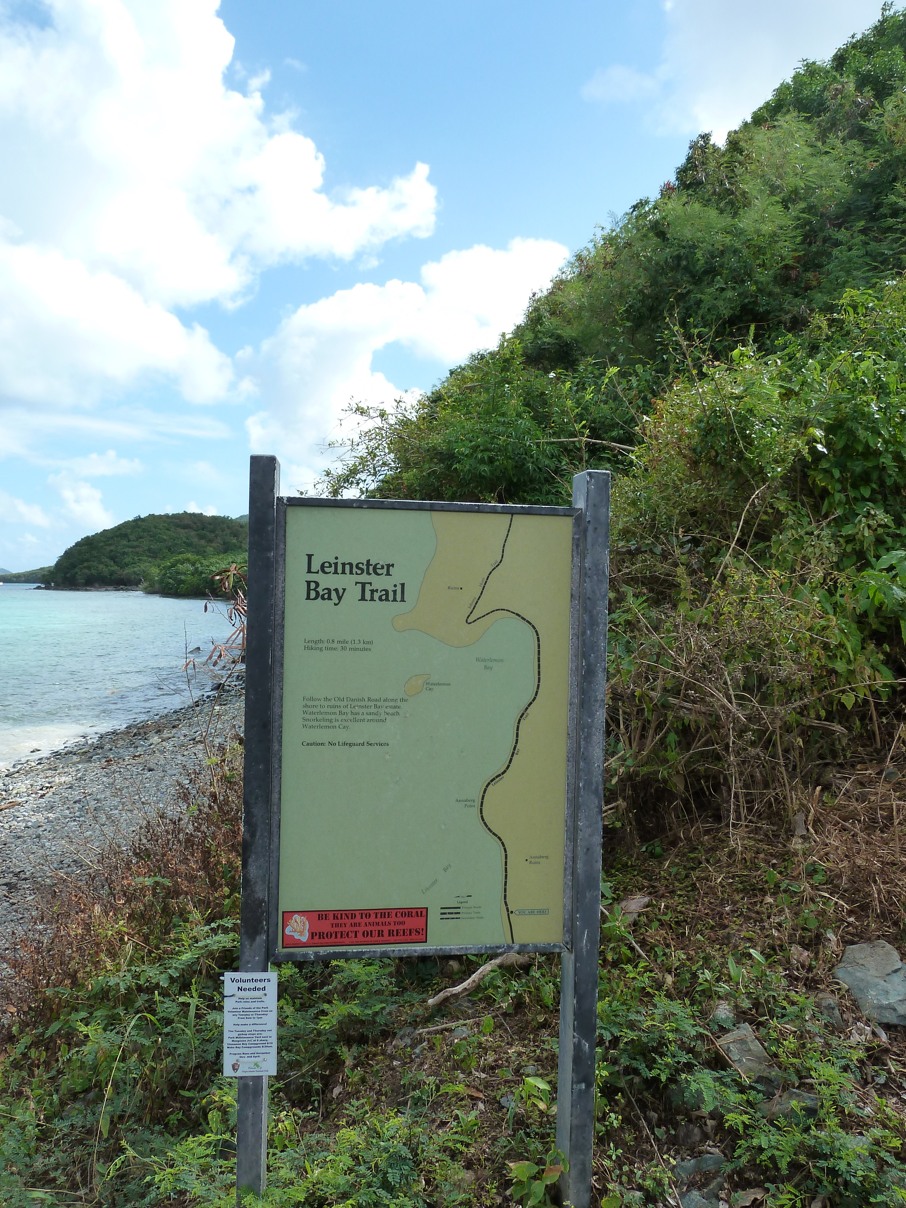 Leinster Bay trail map, Leinster Bay, St John, USVI.